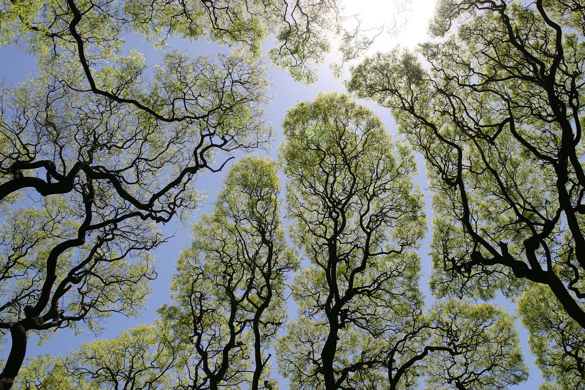 The trees in Plaza San Martin Buenos Aires form interesting patterns